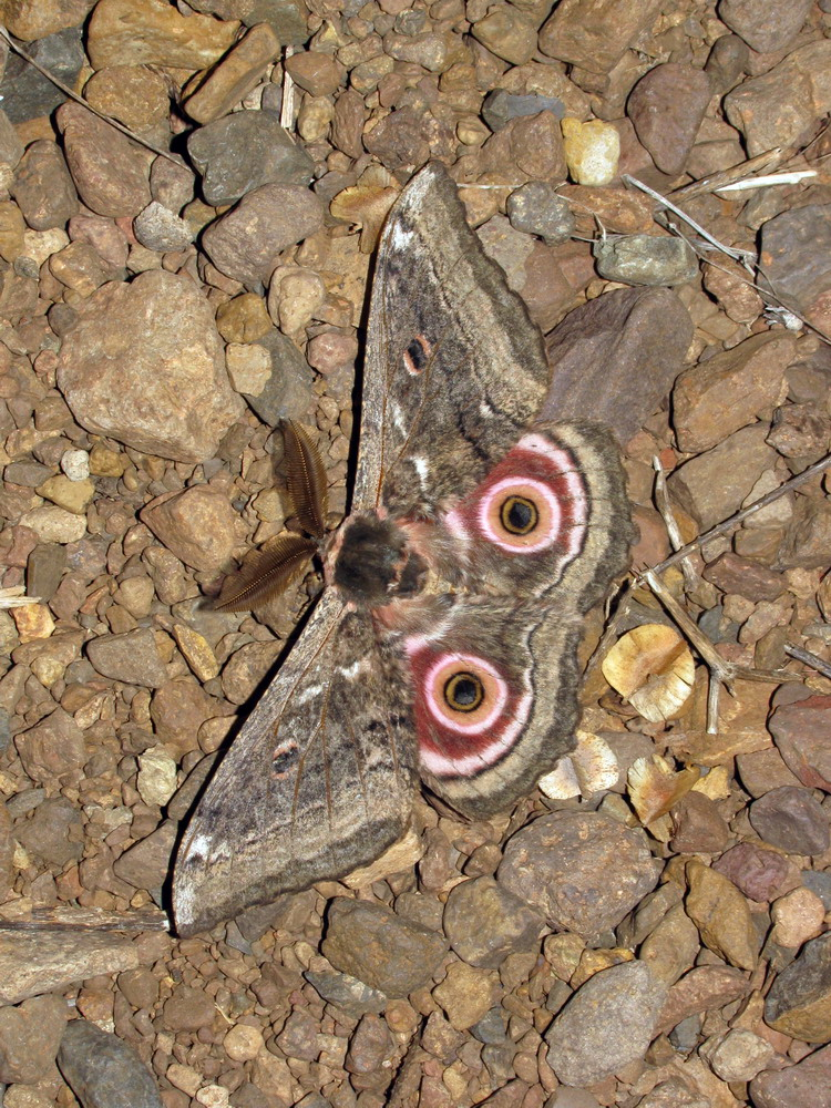 South Africa. October 2009 Photo by Andrey Sochivko